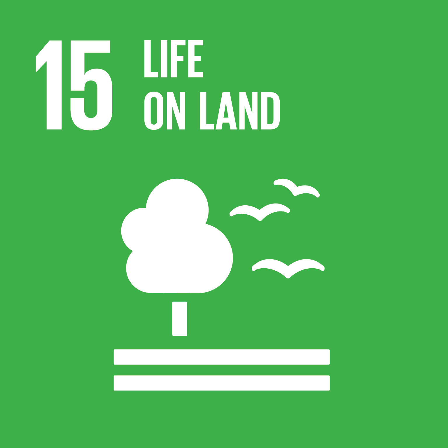 SDG15 Life on LandRomână: Obiectivul de dezvoltare durabilă nr. 15: Utilizarea durabilă a pământului (în engleză)